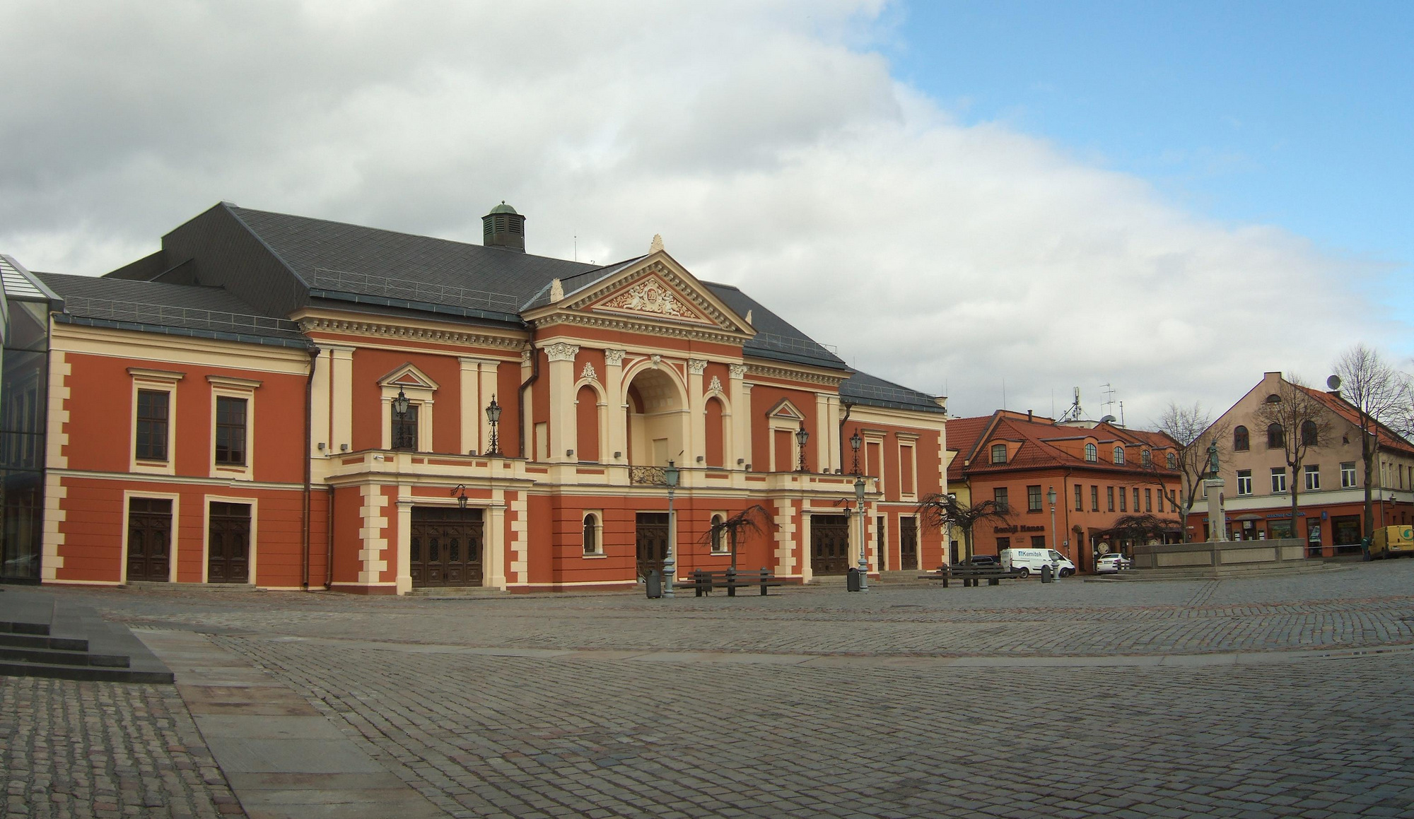 Klaipėda Drama Theater, Lithuania